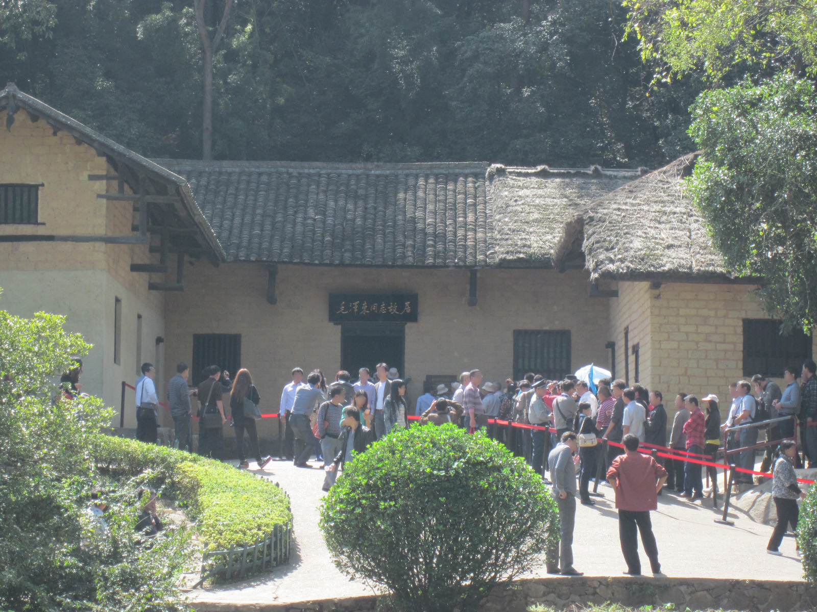 The former residence of Mao Zedong